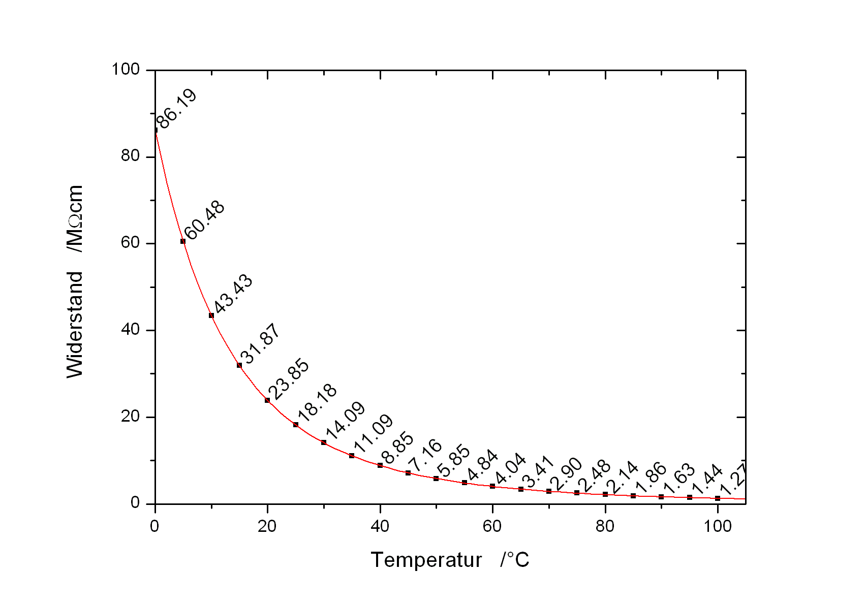 Resistivity of pure water (MOhm-cm) as a function of Temperature (°C)